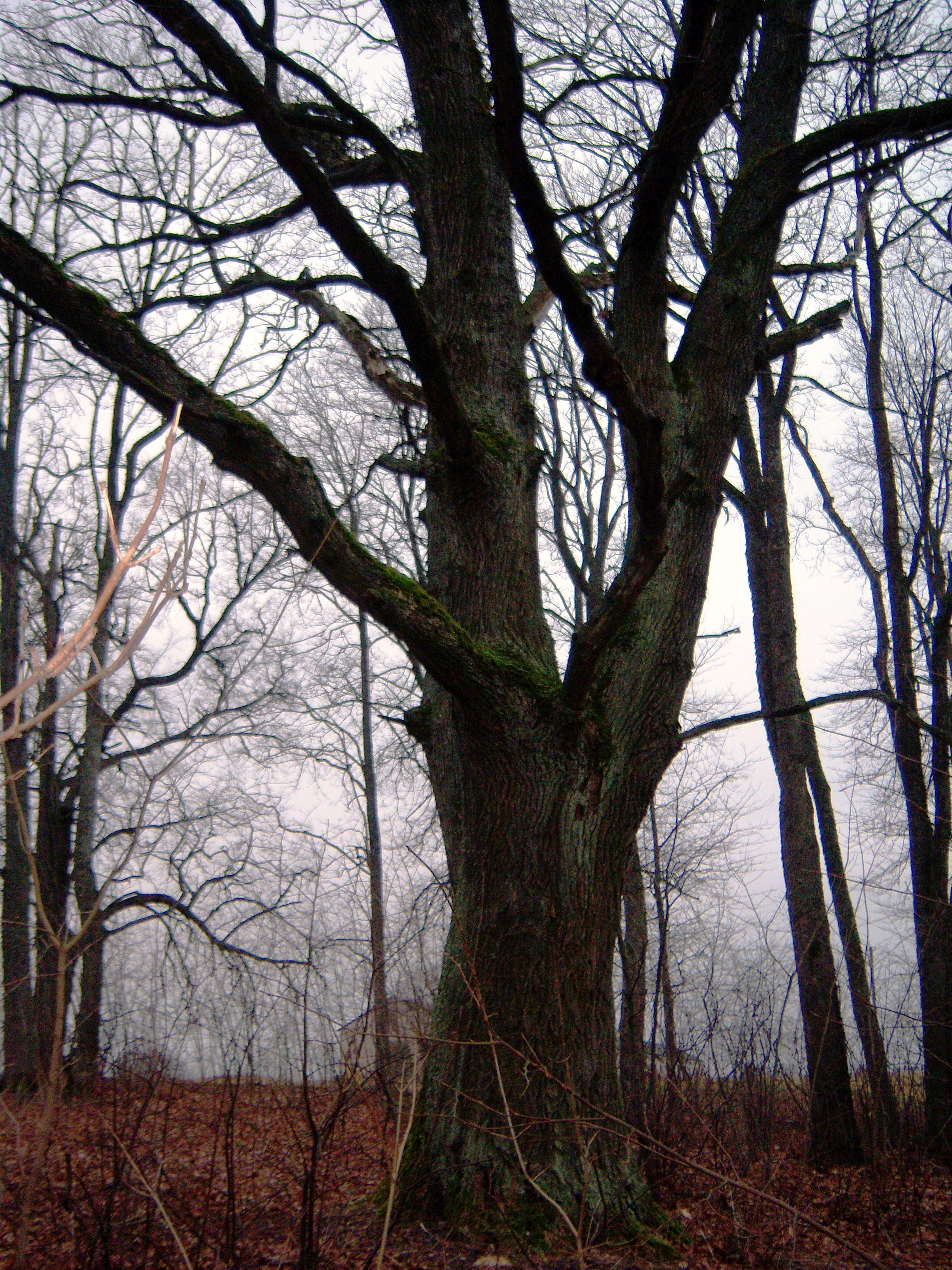 Elbarai Oak, Kelmė District, Lithuania